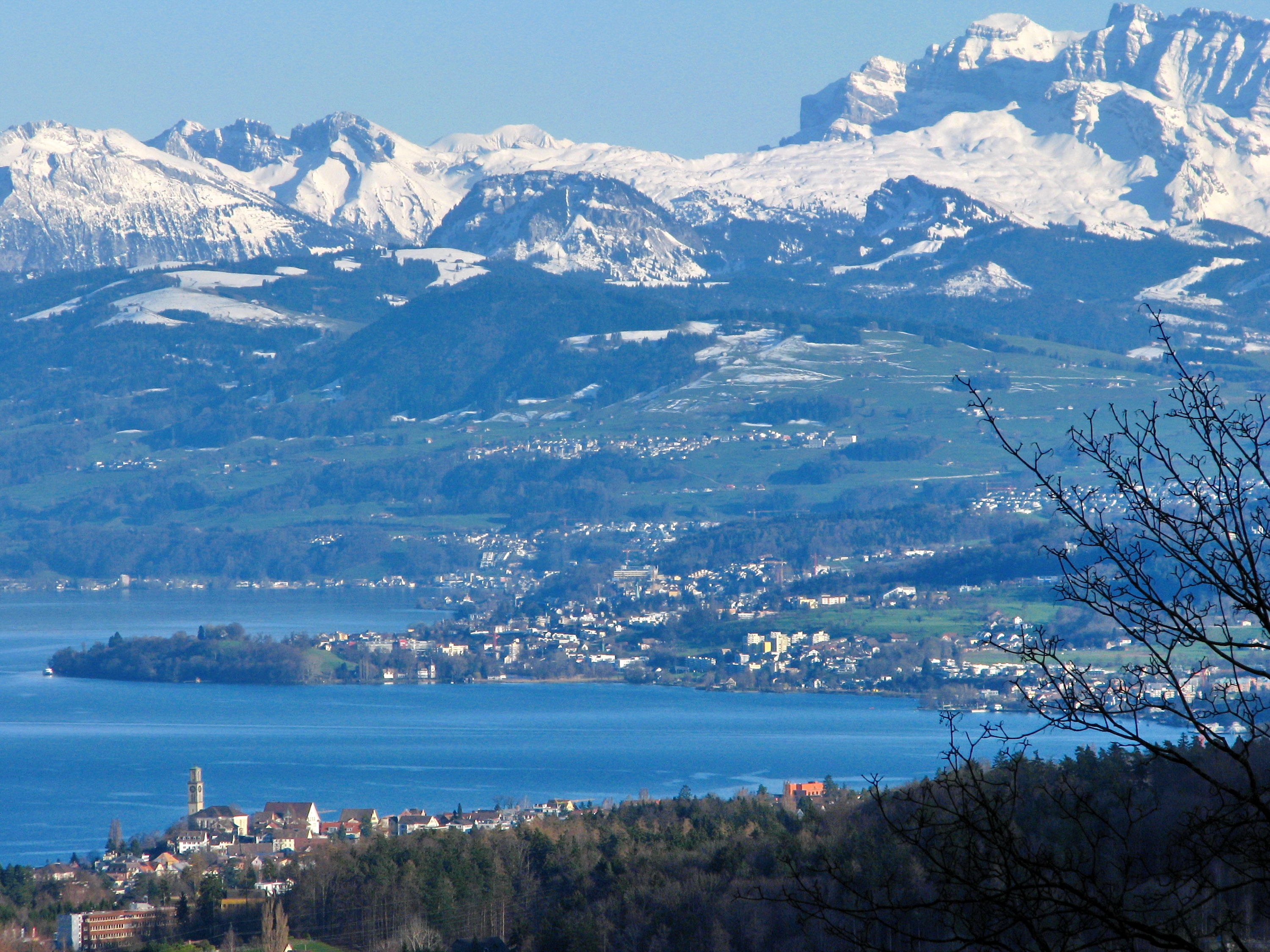 Zürichsee, the village Au, Au peninsula and Zimmerberg region, as seen from Felsenegg, Thalwil and Horgen in the foreground, Wädenswil in the background.